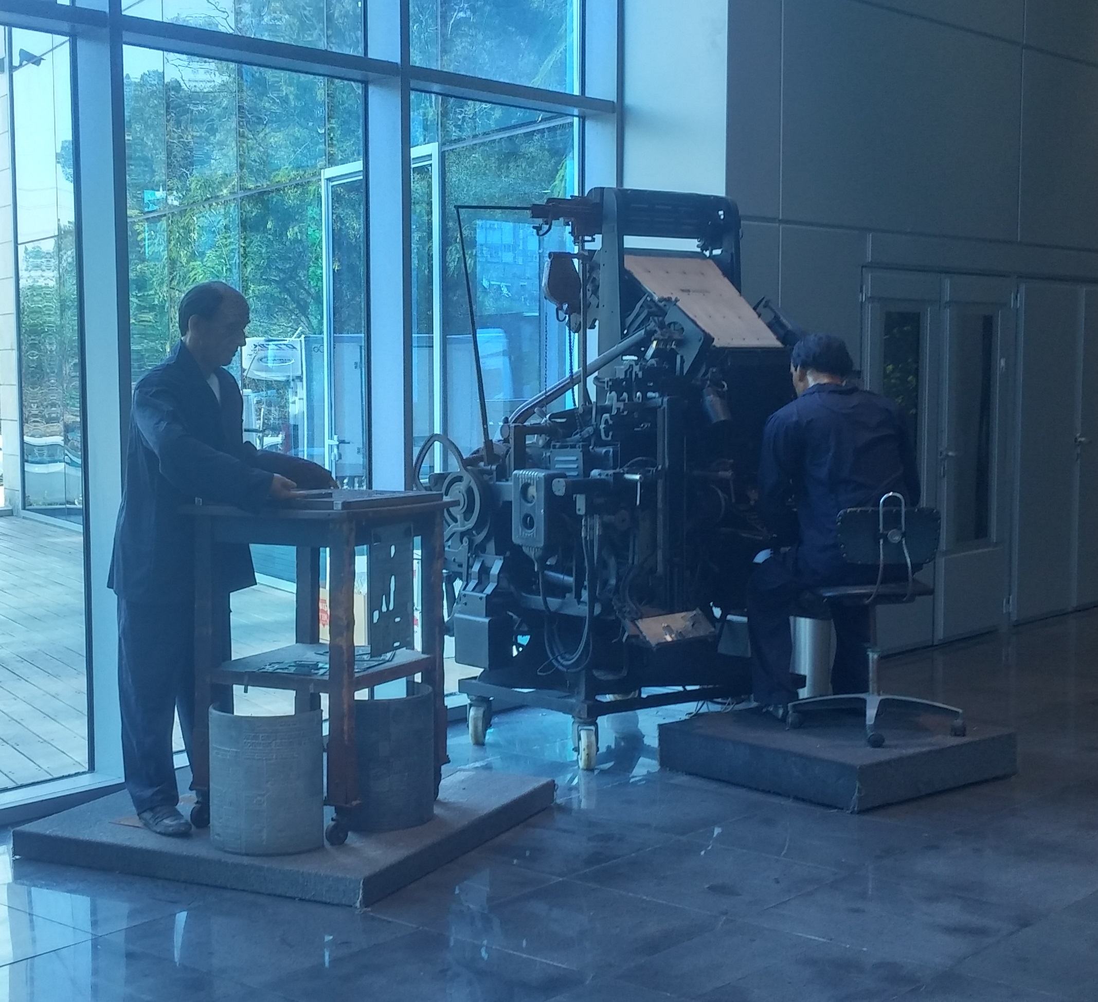 Memorial to the old typesetting system, Yedioth Ahronoth house, Rishon LeZion